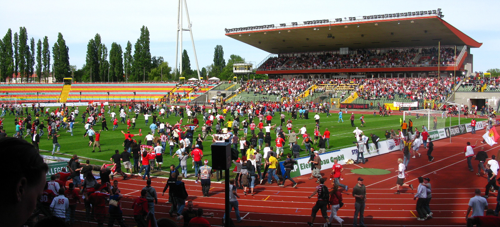 Supporters of the 1. FC Union Berlin celebrating the promotion of the club.